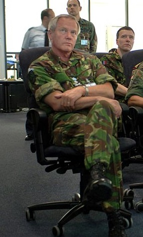 British Gen. Sir John Reith receives an operations brief May 3 from Turkish Naval Capt. Cengiz Ekin on an interactive software tool used to assess battlefield operations at Allied Air Component Command Headquarters at Ramstein Air Base, Germany.